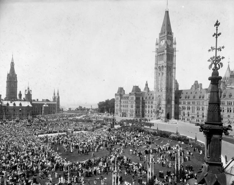 Celebrations for the 60-Year Jubilee of Canadian Confederation (1867-1927) on Dominion Day on Parliament Hill in Ottawa, Canada.